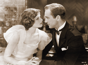 Publicity photograph for the film A Bill of Divorcement (1932), featuring its stars Katharine Hepburn and David Manners. Such images were taken on set during filming, or as part of an organized photo-shoot, by a studio photographer. They were then disseminated to the media and the public to promote the film (see Film still). This is definitely a film still rather than a screenshot, as the quality is too high (compare, for instance, with this screenshot from the film). A stock code can also be seen in the right hand corner. Public domain explanation This photograph does not appear to contain the copyright symbol ©, the word "Copyright", or the abbreviation "Copr.", as then required for copyright. If one looks at other film stills from A Bill of Divorcement where a stock code can be clearly seen, none of these include a copyright notice: [1], [2] By publishing a photograph without such a notice, under the terms of the 1909 Copyright Act (which was law until 1978) the image went into the public domain. If there is any chance that the photograph was copyrighted, under the terms of the 1909 Copyright Act it would have had to be renewed 28 years after publication. A search for copyright renewal records of 1960 ([3], [4]) reveal no trace that this occurred. Film industry author Gerald Mast has written: "According to the old copyright act, such production stills were not automatically copyrighted as part of the film and required separate copyrights as photographic stills ... Most studios have never bothered to copyright these stills because they were happy to see them pass into the public domain, to be used by as many people in as many publications as possible." (Film Study and the Copyright Law (1989) p. 87.)